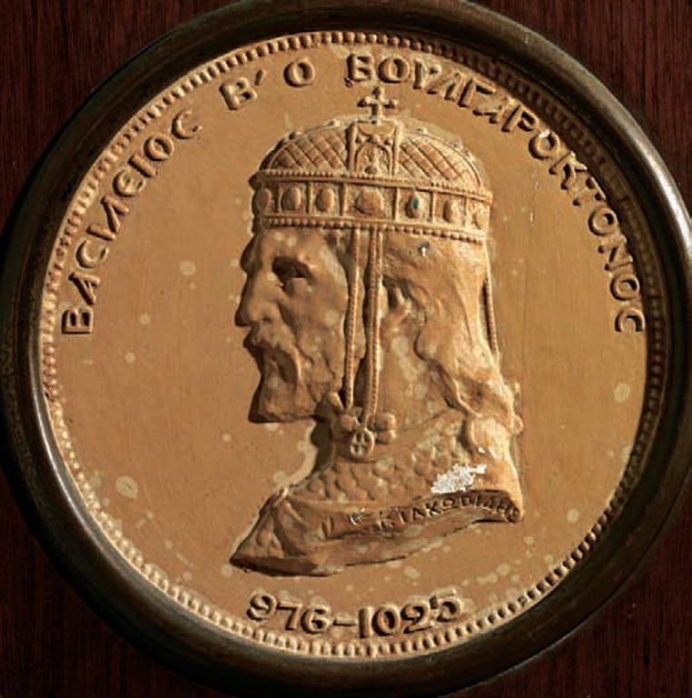 Basil II on a medal in honor of Greek victory over Bulgarians in the Second Balkan war.